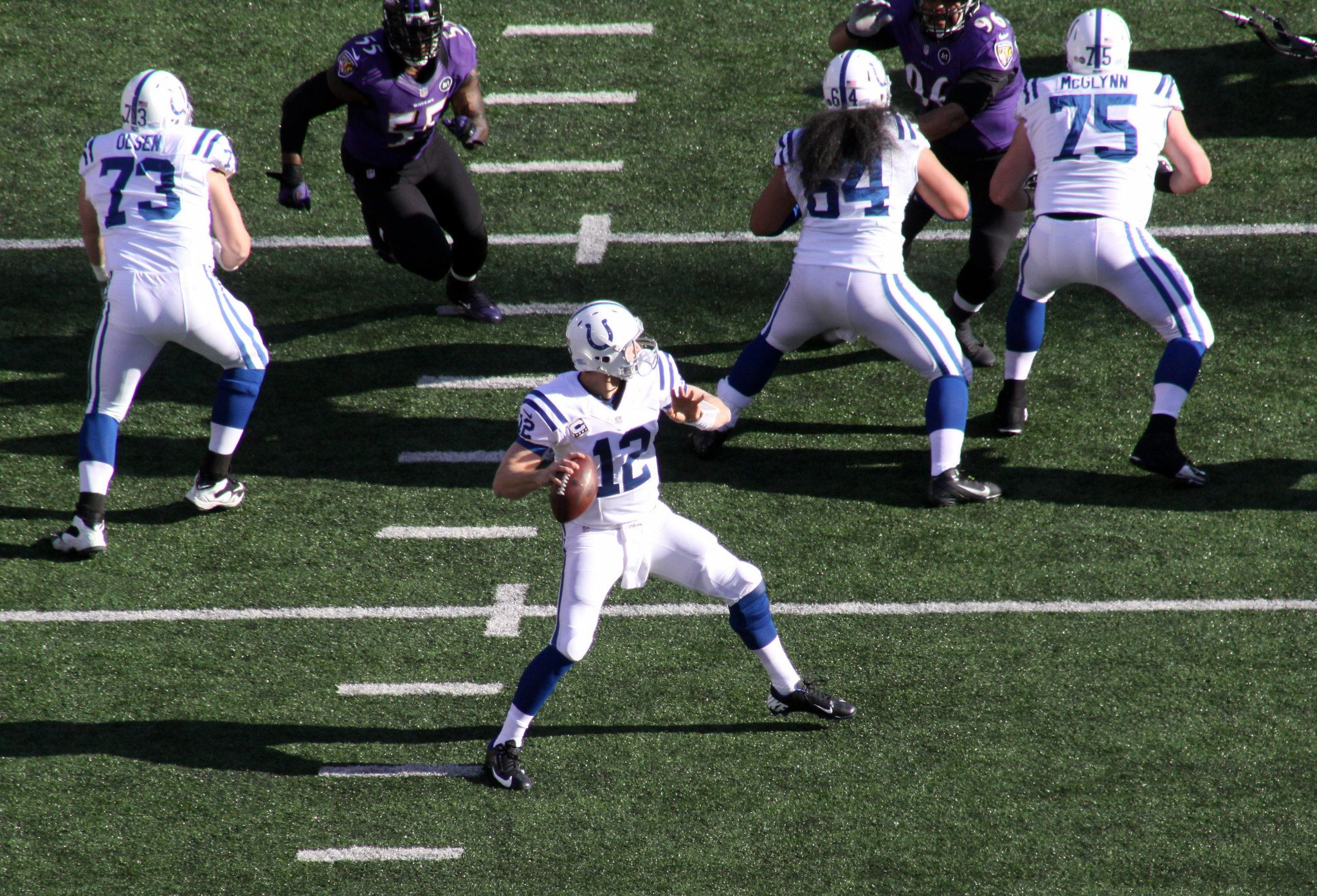 Andrew Luck in the pocket vs. the Baltimore Ravens during a Wild Card Playoff game January 6, 2013.